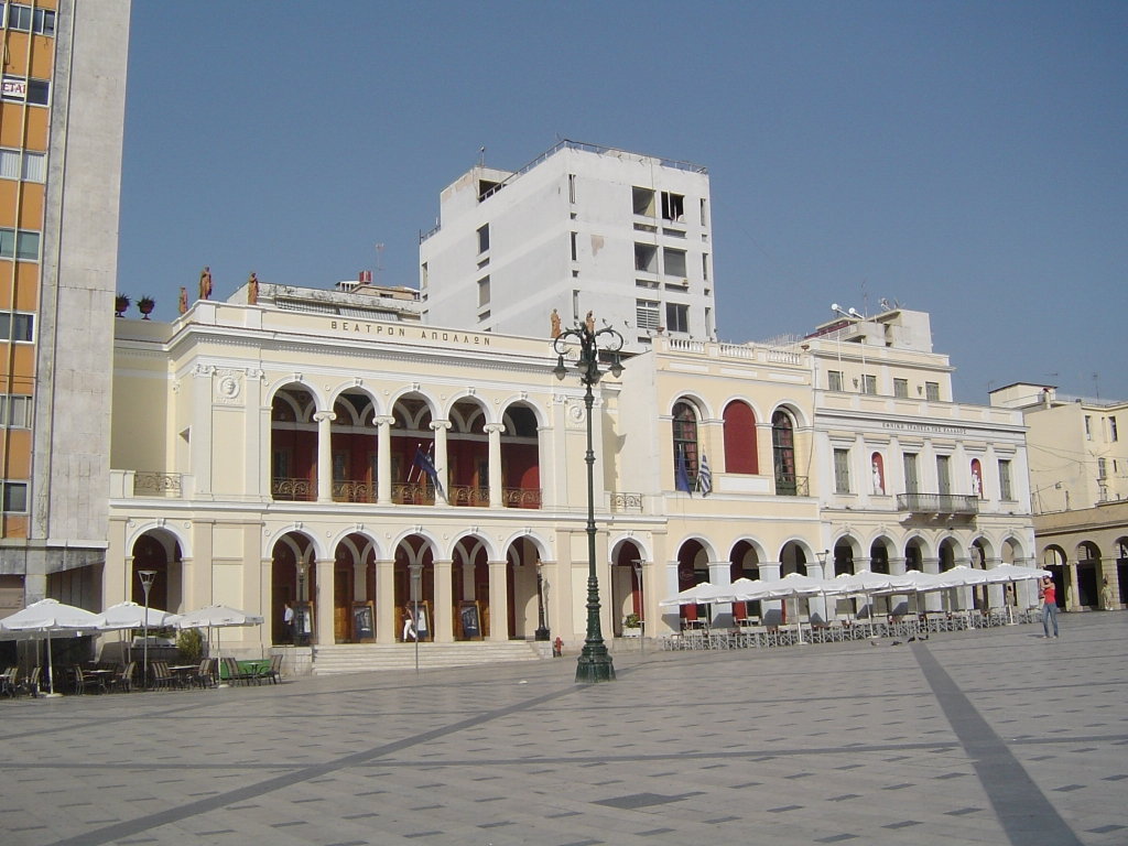 Patras, Greece: Apollo Theatre (architect: Ernst Ziller)